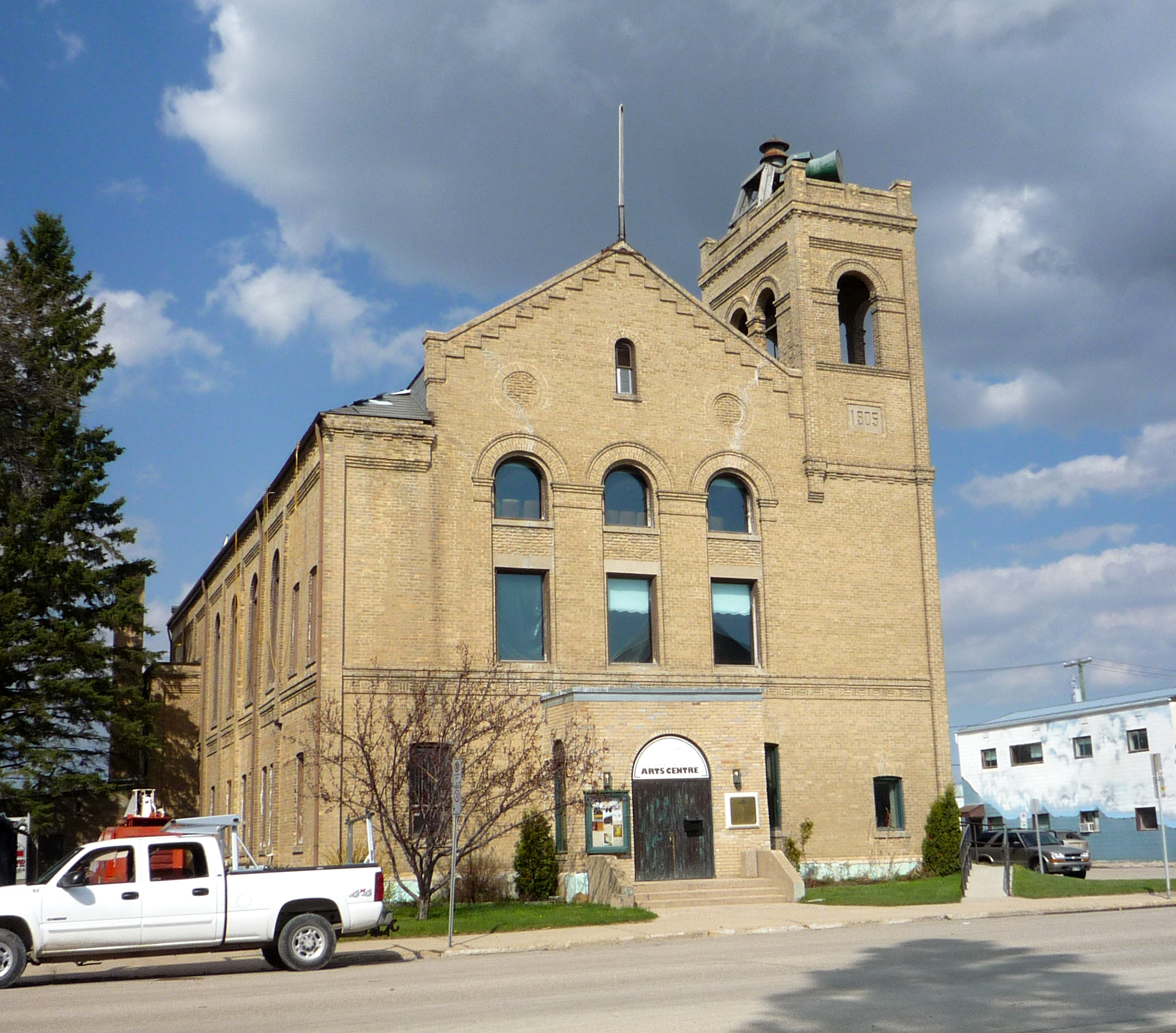 Watson Arts Centre, Dauphin, Manitoba. The building was originally built as the town hall in 1905, housing the fire station and RCMP detachment.